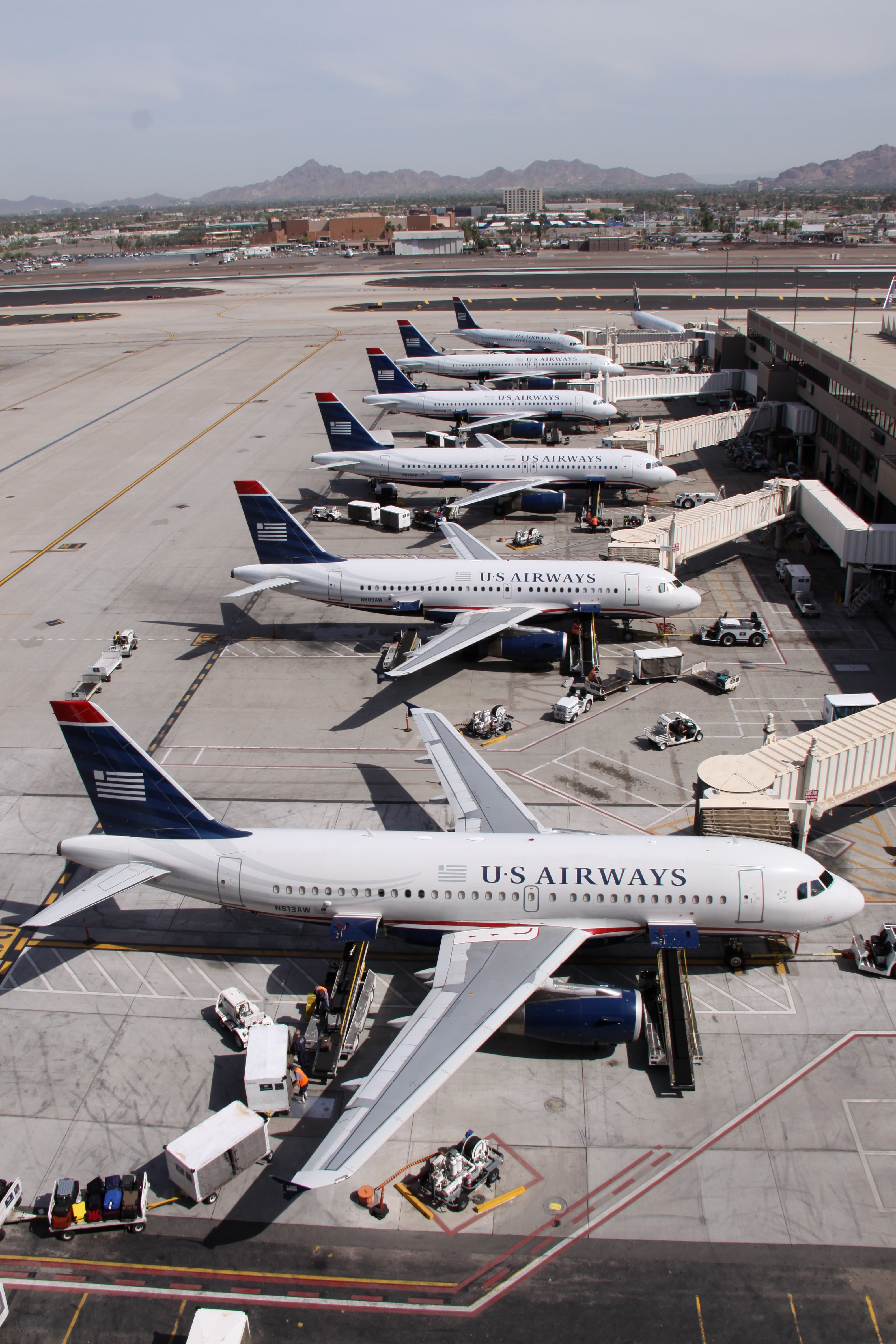 US Airways Airbus Line Up At Phoenix Sky Harbor International